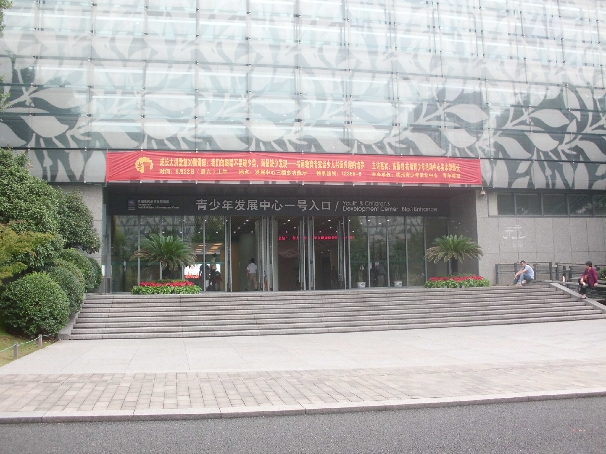 Hangzhou youth and children's development center No.1 entrance